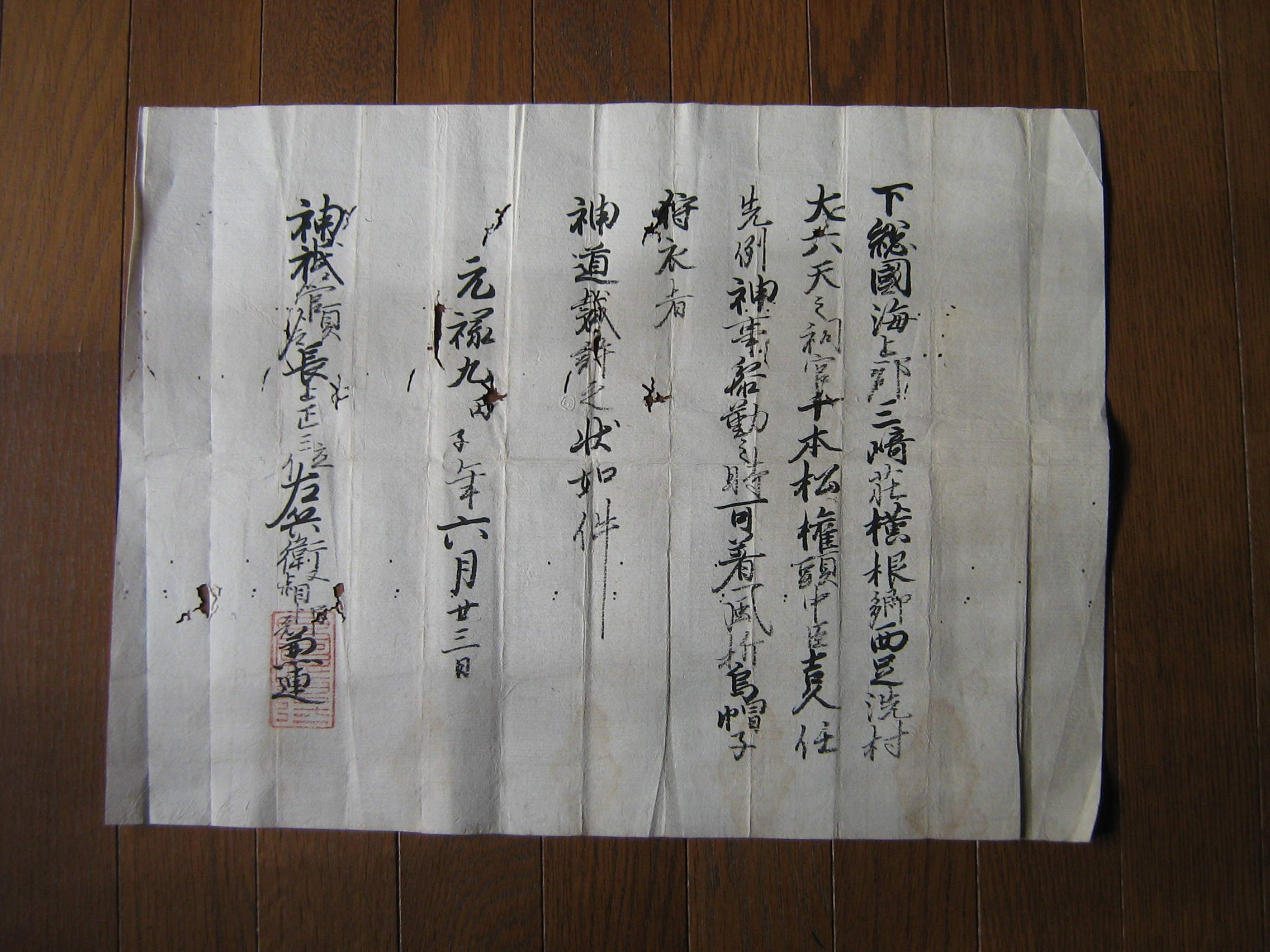 Shinto saikyojo (permit of being a shinto shrine) issued to Uraga Shrine (Uraga Jinja), dated 1696 (the 9th year of the Genroku era)